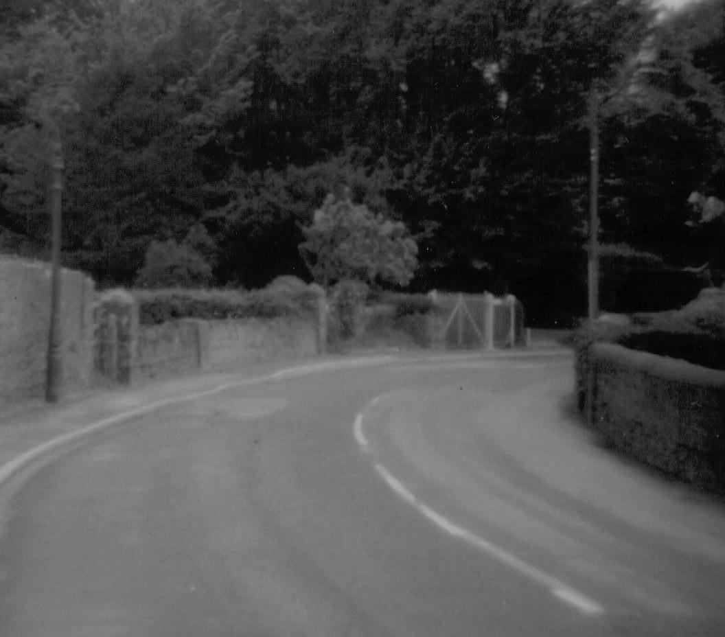 The old crossing near Chanter's Lane, Bideford, Devon, England